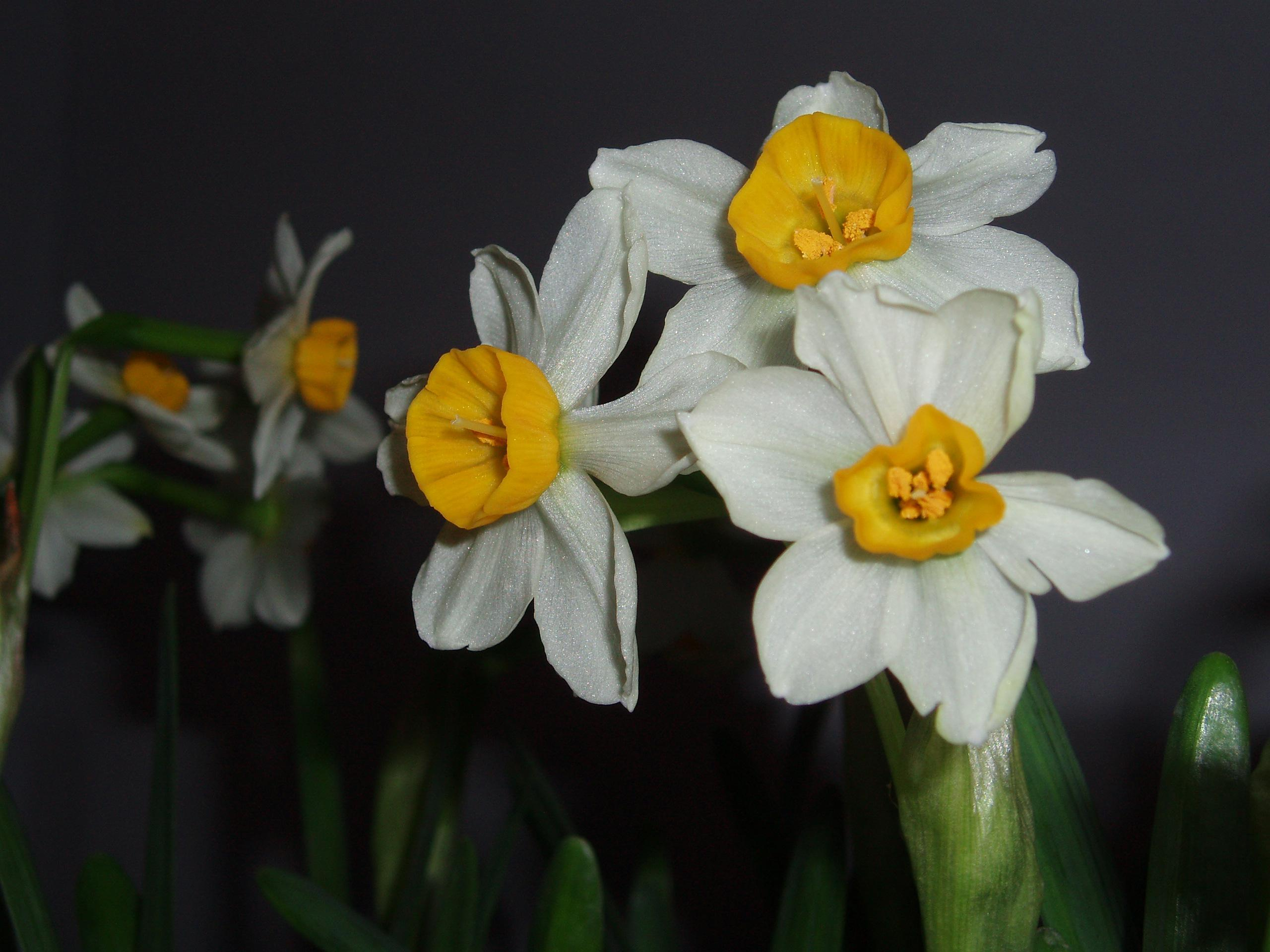 Narcissus flowers